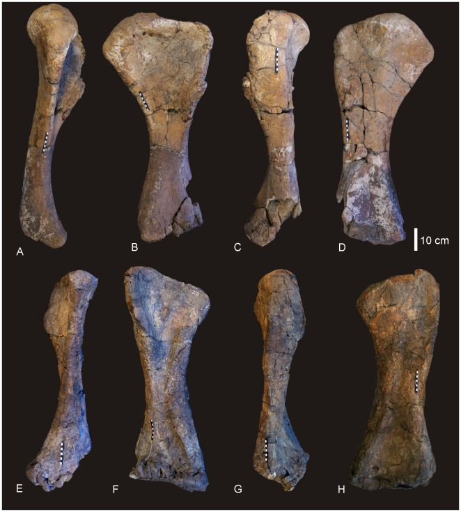 Left humerus in medial (A), anterior (B), lateral (C) and posterior (D). Right humerus in lateral (E), anterior (F), medial (G) and posterior (H).